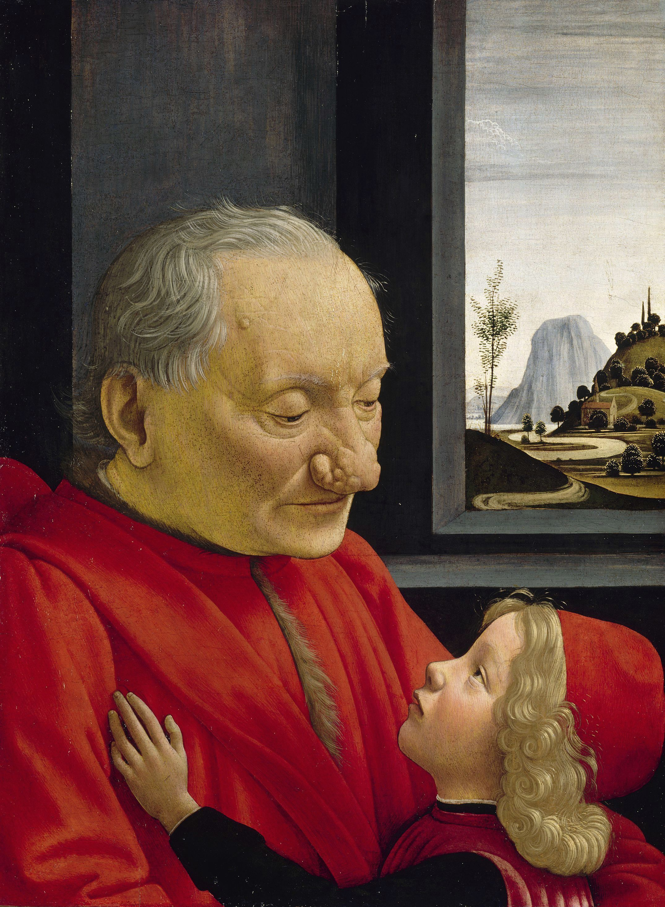 GHIRLANDAIO, Domenico An Old Man and His Grandson Tempera on wood, 62 x 46 cm Musée du Louvre, Paris